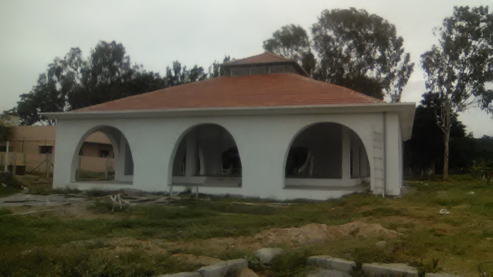 ராமநாயக்கன் ஏரி நடைபாதையில் அமைக்கப்பட்டுள்ள தியான மண்டபம்